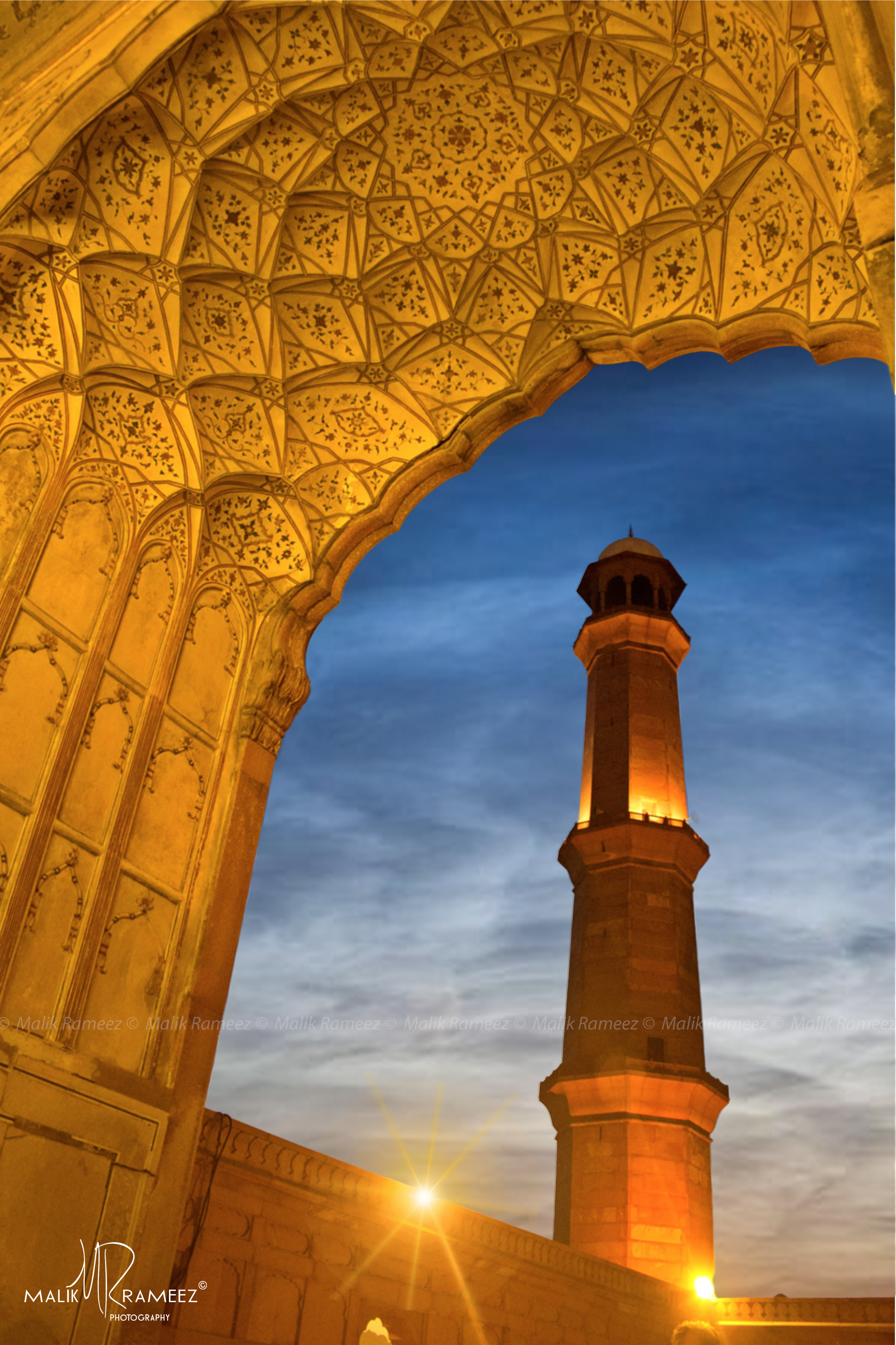 Badshahi Mosque (King’s Mosque) This is a photo of a monument in Pakistan identified as the PB-44